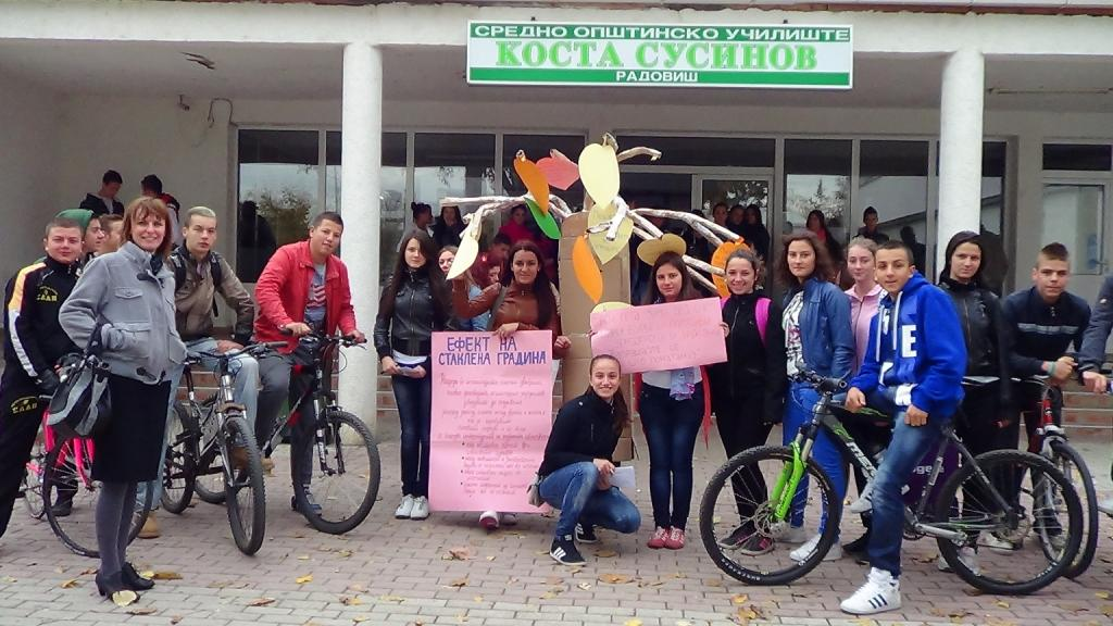 Еколошка активност „Климатски промени“ во СОУ Коста Сусинов - Радовиш